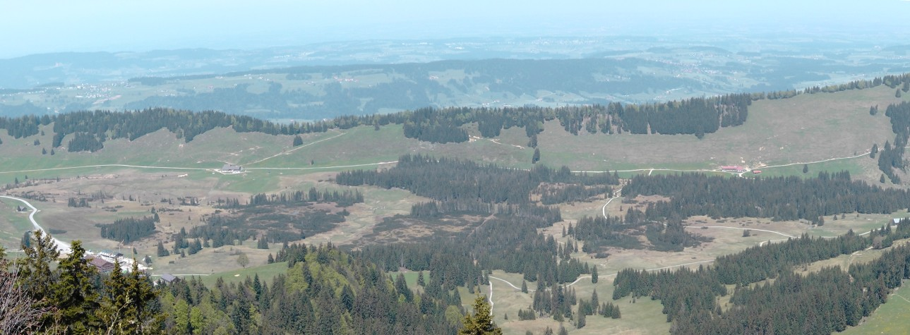 Plateau between the Nagelfluhkettes at Steibis